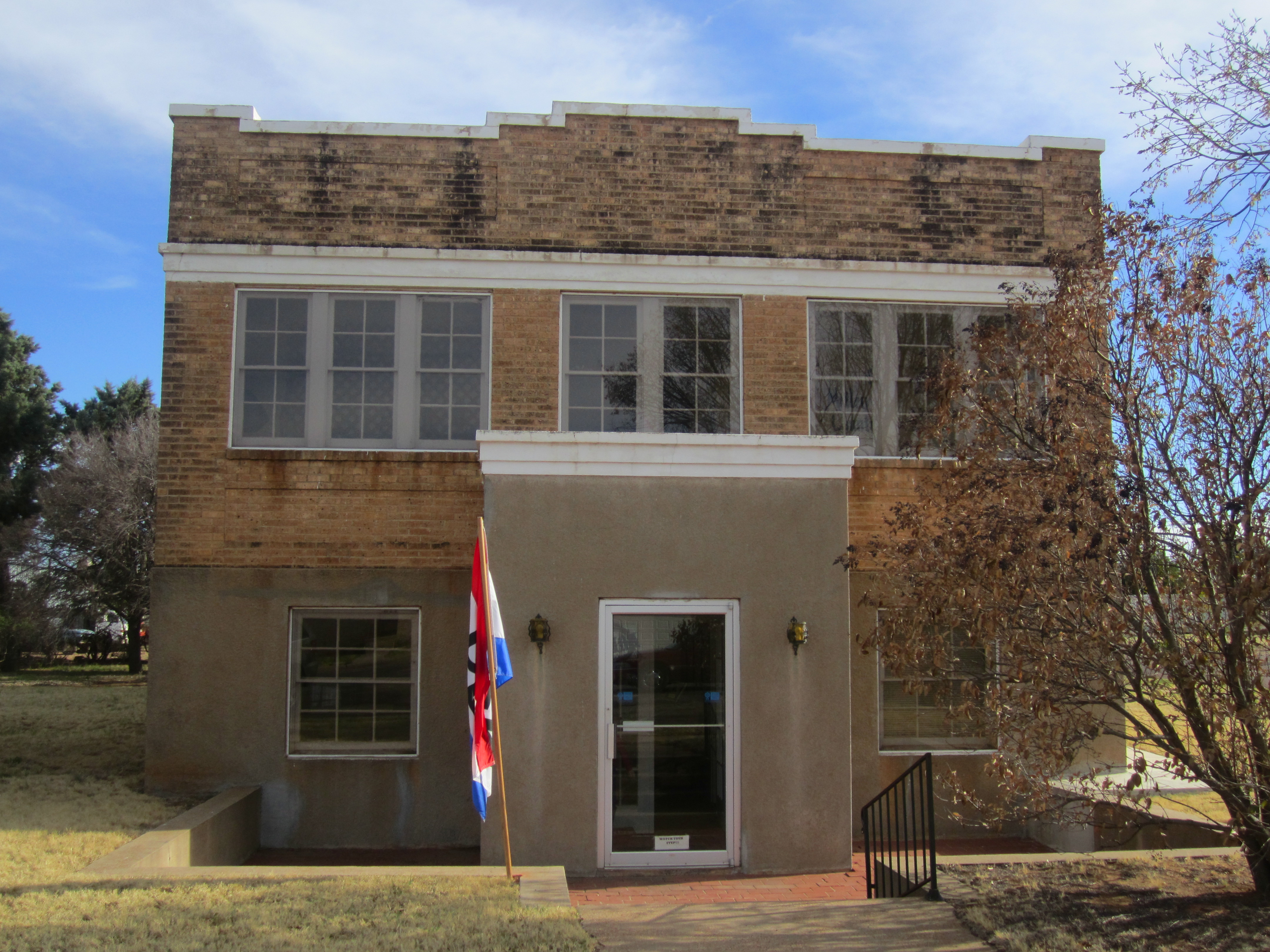 I took photo with Canon camera in Matador, TX.